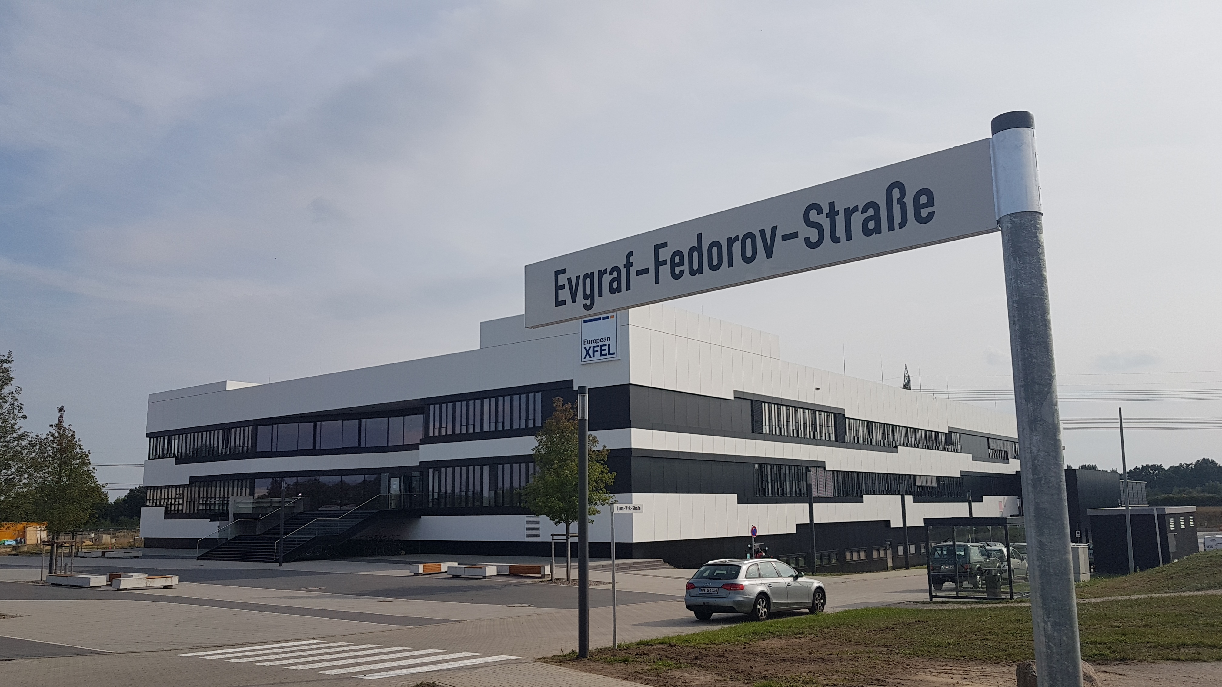 The street named after Evgraf Fedorov near the European XFEL, Germany